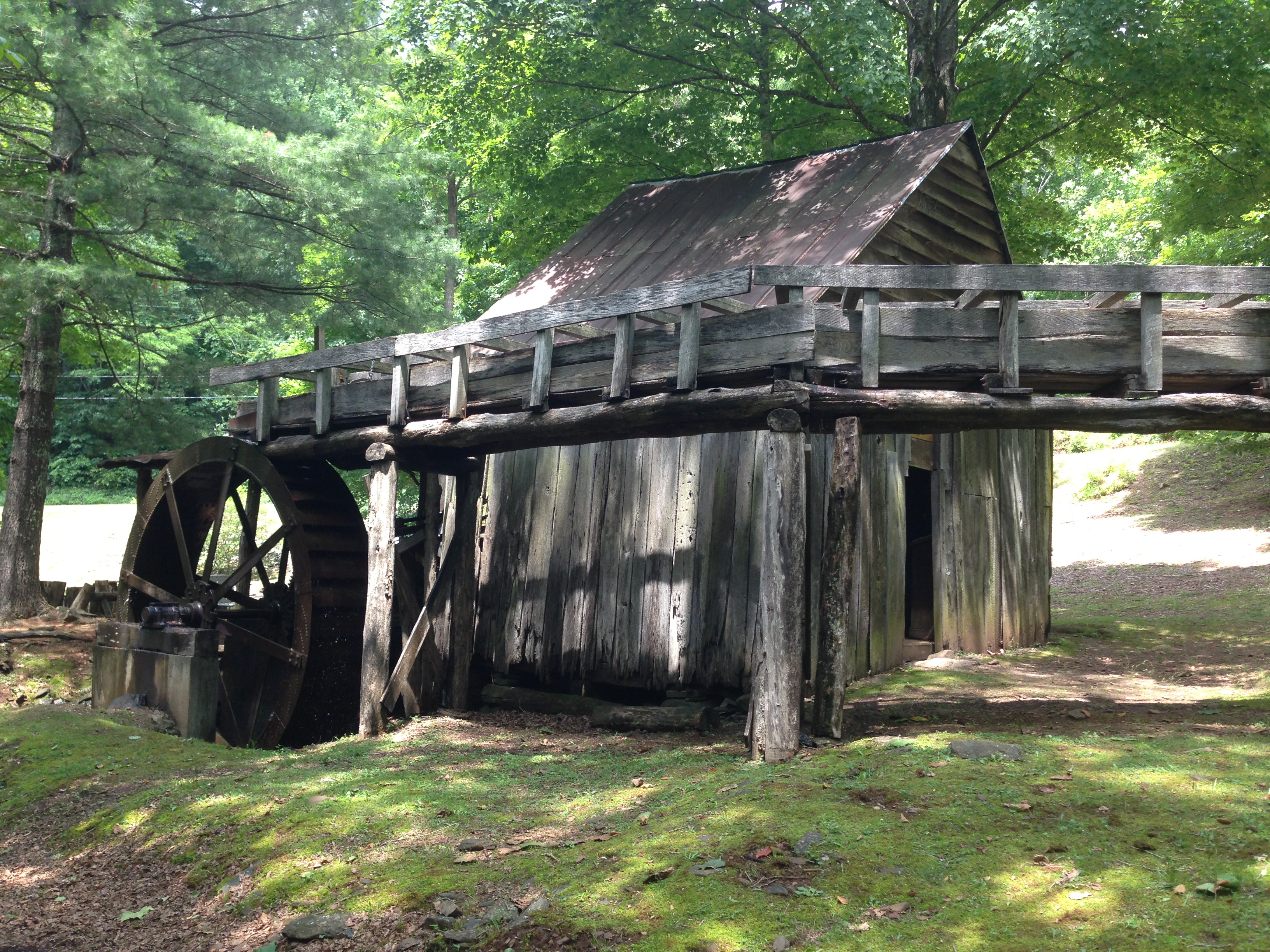 Dellinger Mill built 1867 in Mitchell County NC